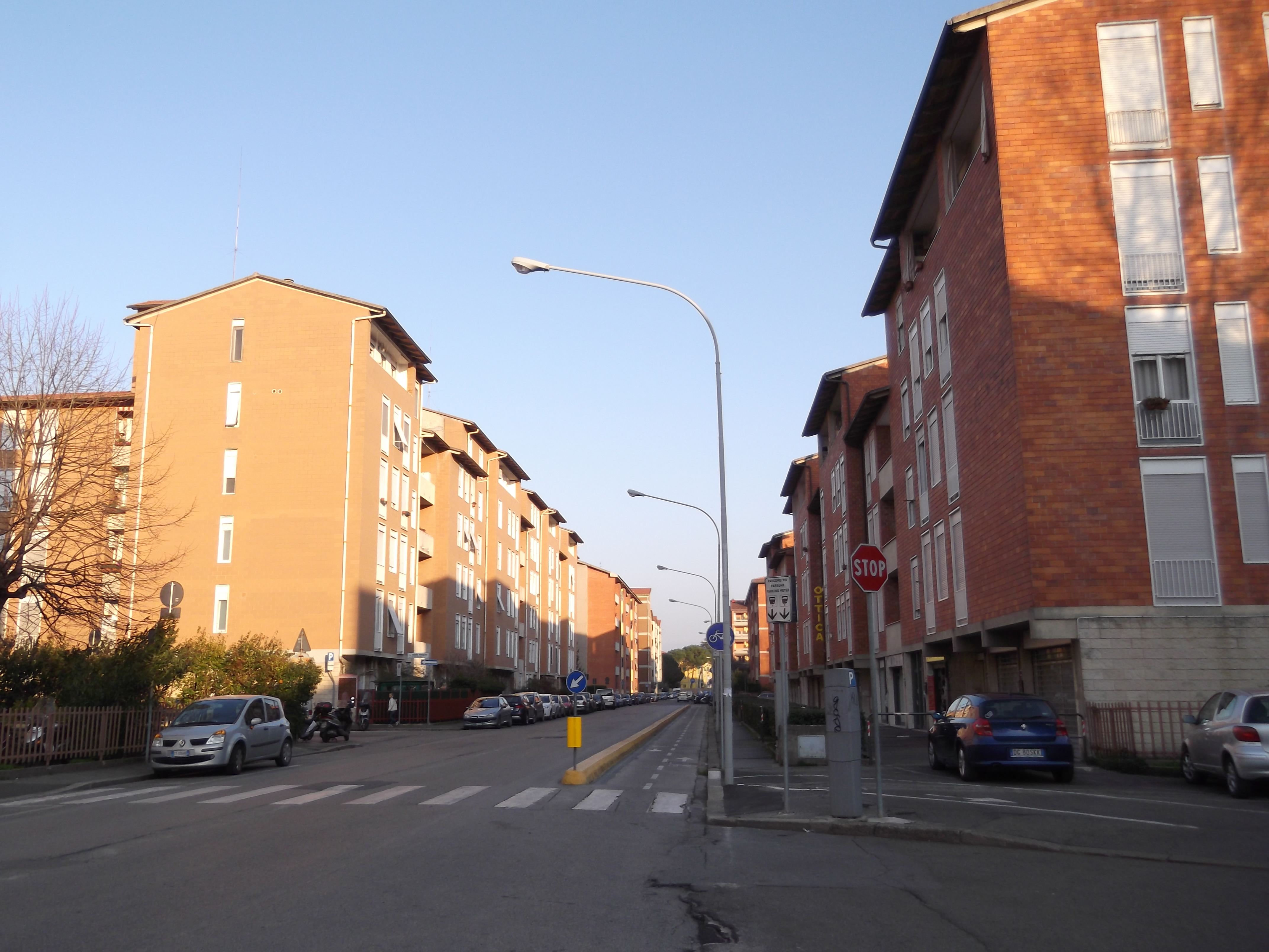 Via Amedeo Modigliani a Firenze